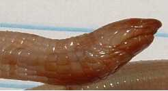 head of a preserved amphisbaenia Probably genus Rhineura 62.166.9.7 12:49, 19 Feb 2005 (UTC).